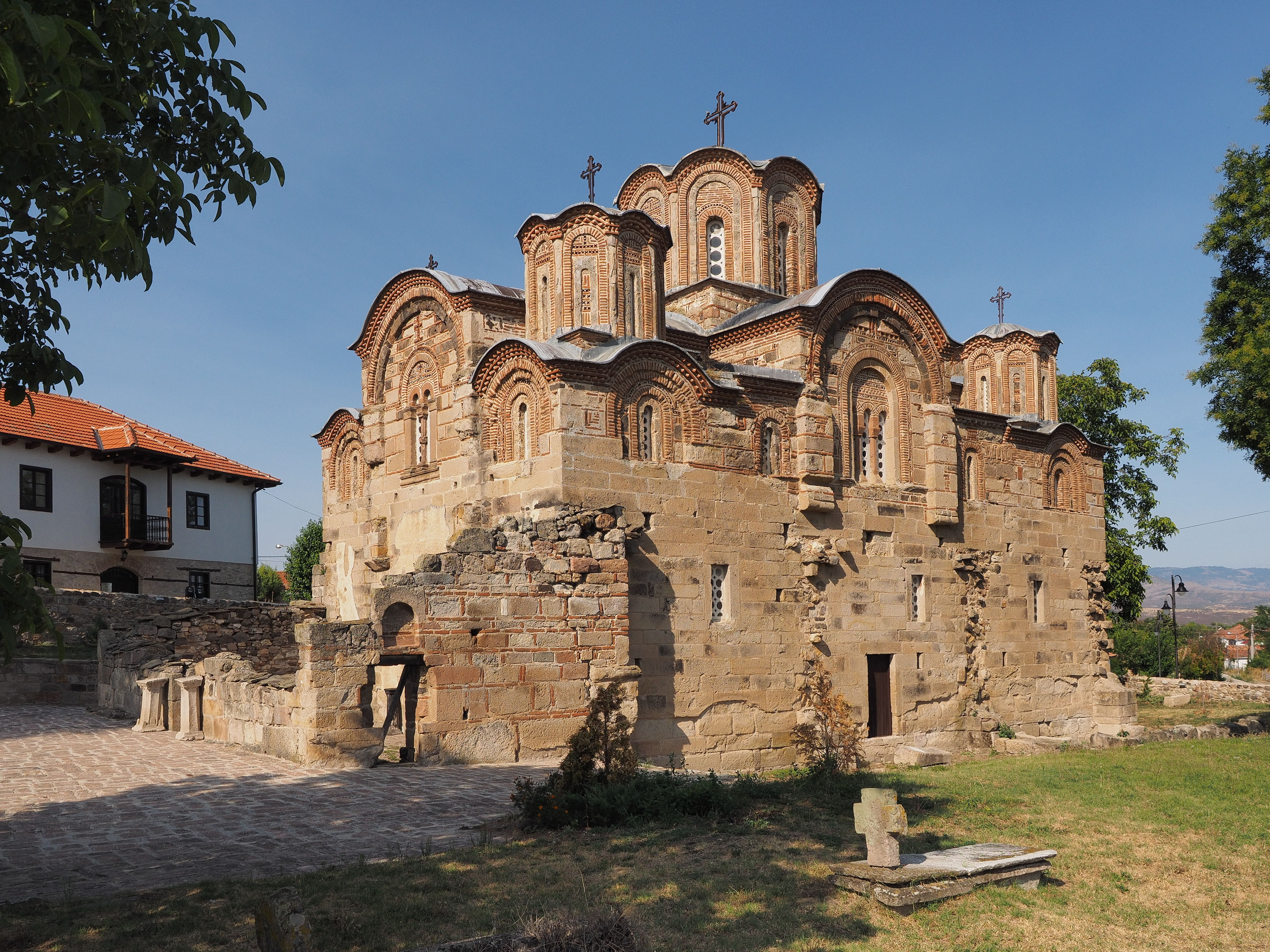 Monastery of Saint George in Staro Nagorichane, Macedonia.